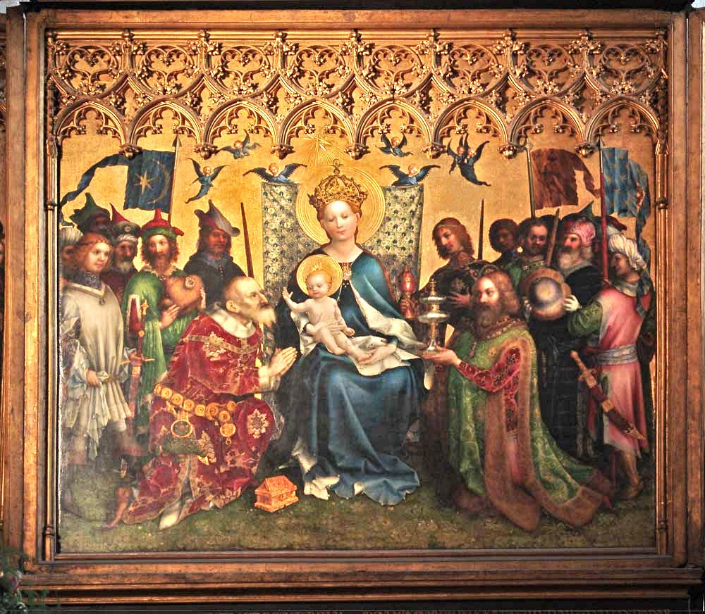 Cologne Cathedral, Altarpiece of the Magi by Stephan Lochner